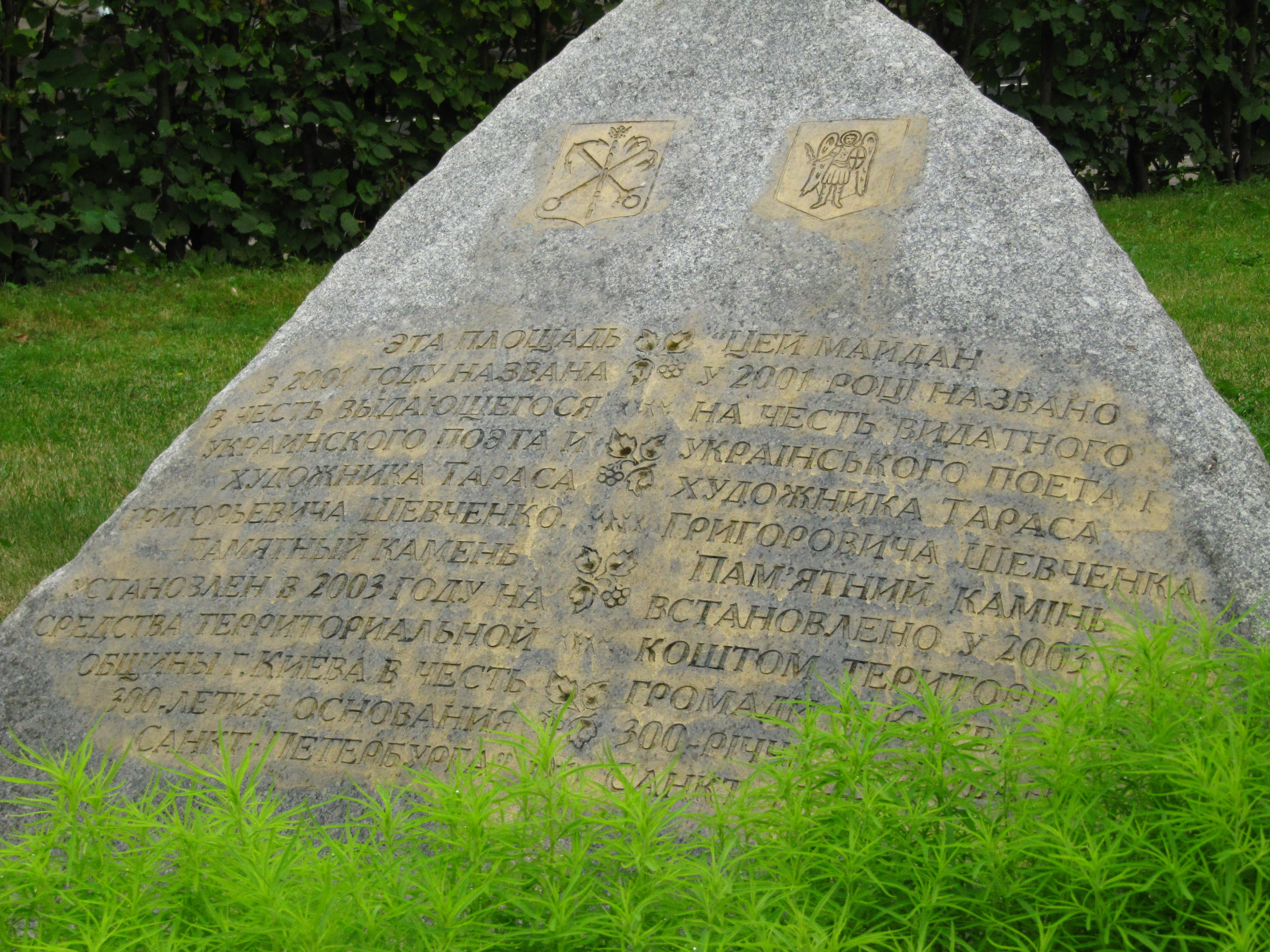 Taras Shevchenko square in Saint Petersburg.